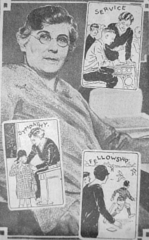 Screenshot-2017-10-2 Doing Disability Justice